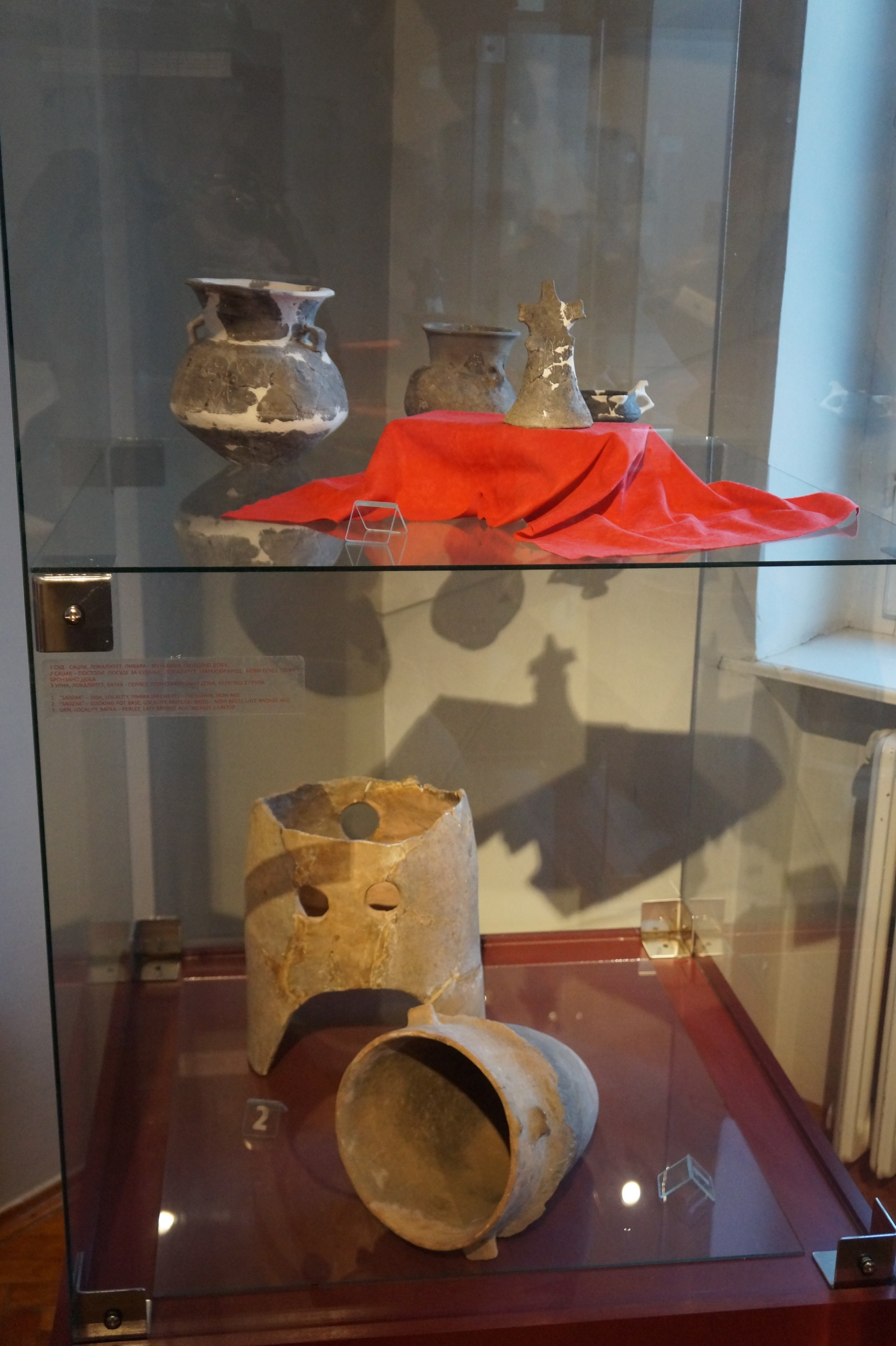 Bronze Age cabinet 04, museum Zrenjanin. Archeological artefacts from Banat, Vojvodina Српски (ћирилица): Горе: Урна, пехар, зооморфна посуда и антропоморфна статуета - гроб са кремацијом, локалитет Мали Акач, Ново Милошево (позно бронзано доба, култура инкрустоване керамике). Доле: Суд-саџак са локалитета Зрењанинска пивара (гвоздено доба) и саџак-постоље посуде за кување, локалитет Матејски Брод Нови Бечеј (позно бронзано доба)